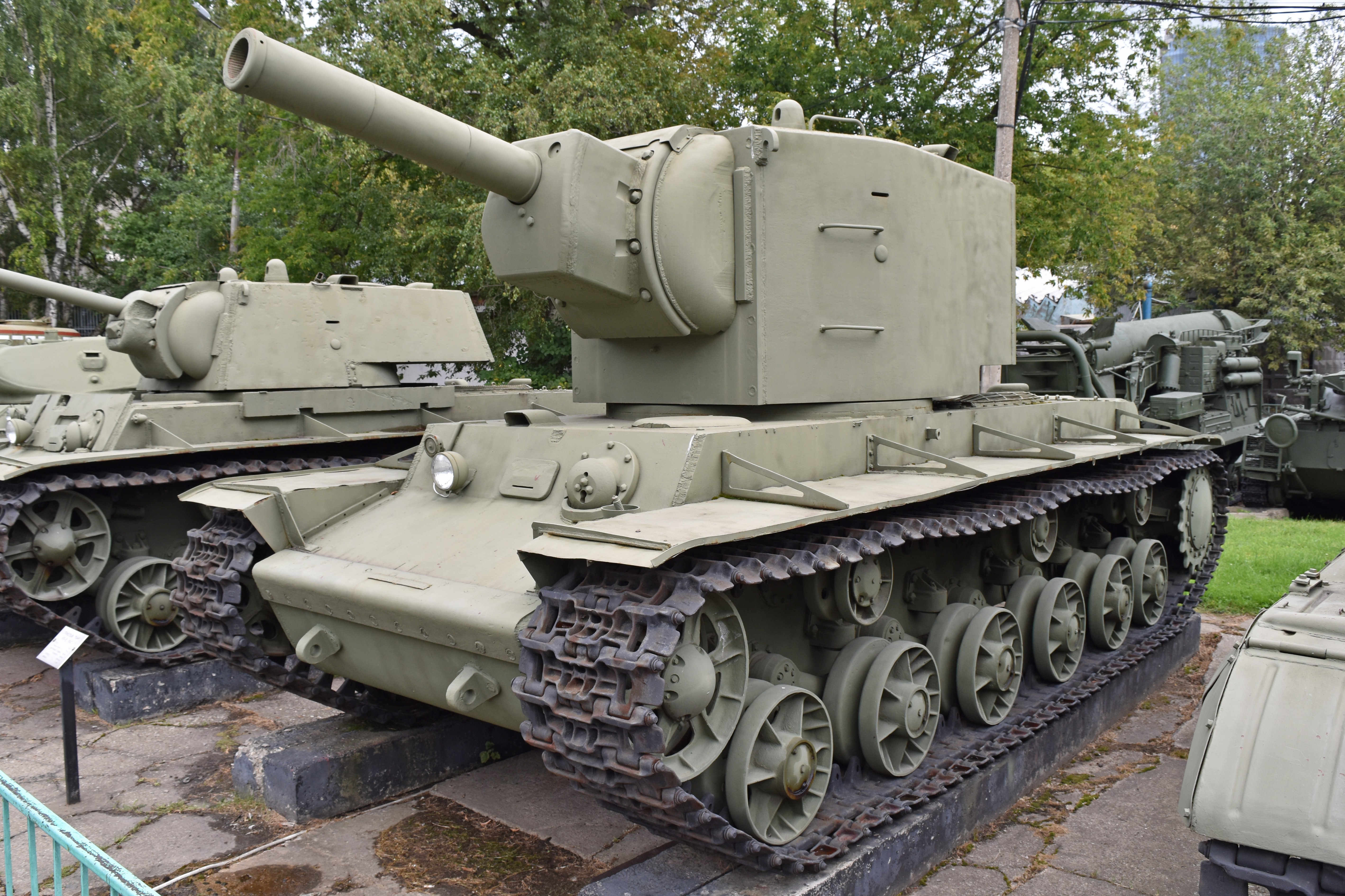 Soviet WW2 era Heavy tank / Assault gun Built:- late 1939 to mid 1941 Total production:- 334 Main armament:- 152mm M-10T Howitzer The KV-2 used a KV-1 chassis but with a much larger turret mounting a 152mm gun. Named “Dreadnought” by Russian crews, it made for an impressive sight on the battlefield but the excessive overall weight made it very slow to manoeuvre and the huge turret made for an excellent target. The weight of the turret also meant it could only traverse when the tank was on level ground. For these reasons it was only built in relatively small numbers. This is the only surviving original example. It was built in June 1941 and has the serial No 4744. It is on display at the Central Armed Forces Museum, Moscow, Russia. 26th August 2017